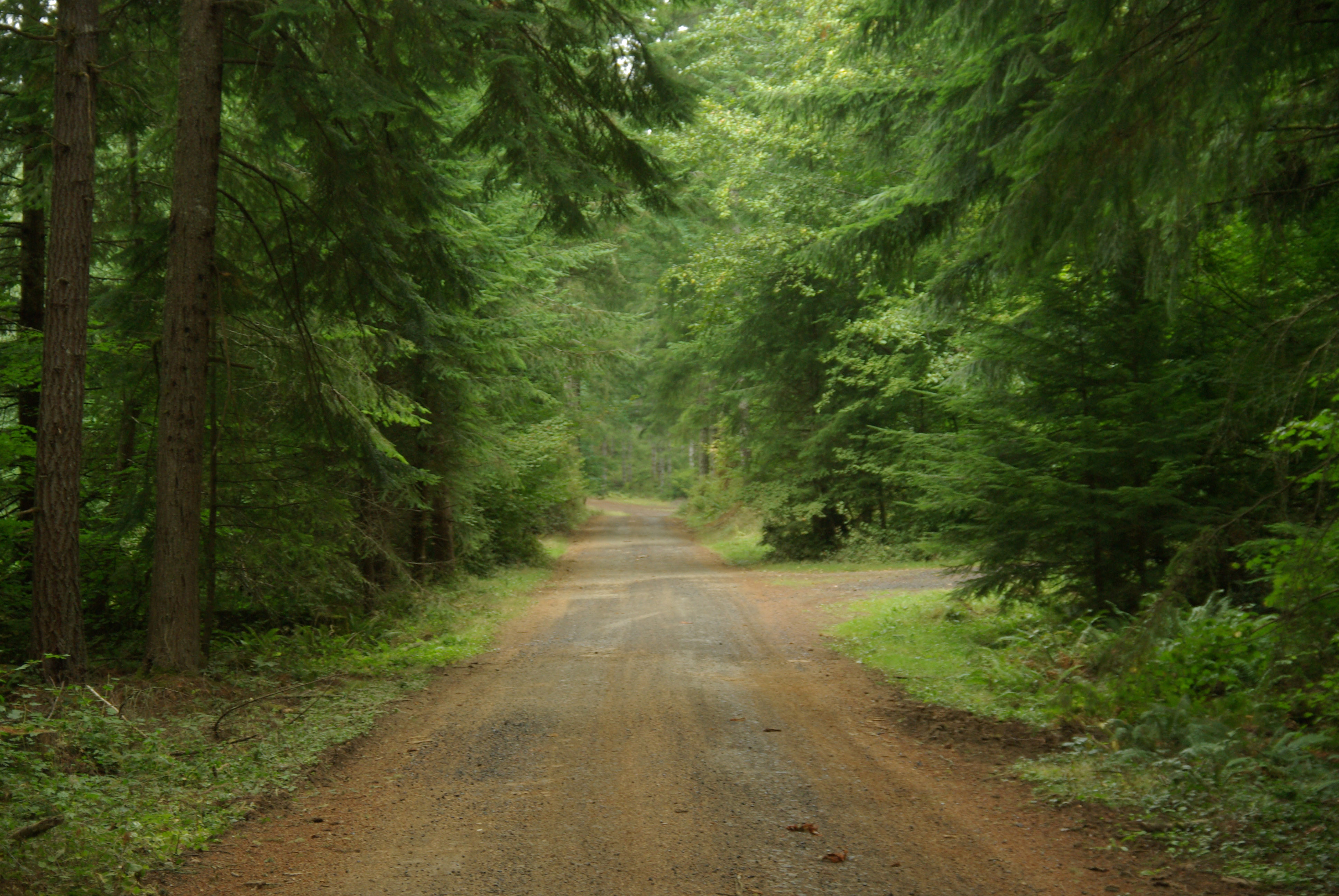 Logging railroad converted to truck road on private land in Northwest Oregon